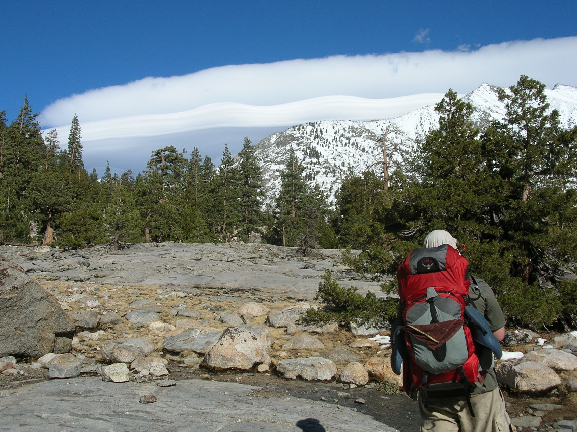 Sierra wave over eastern edge of King's Canyon National Park a day after a weather system passed through.